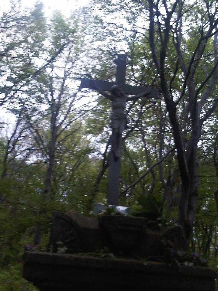 The cross on the Zengő mountain in southern Hungary, visited by male villagers at dawn on Easter Sundays every year. The old folk custom is called "Bárányles" in Hungarian (vigil of the lamb).